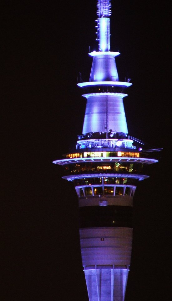 Sky Tower on a fine night lit up by blue lights, Auckland, New Zealand.